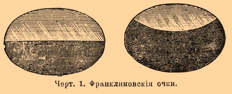 Illustration from Brockhaus and Efron Encyclopedic Dictionary (1890—1907)